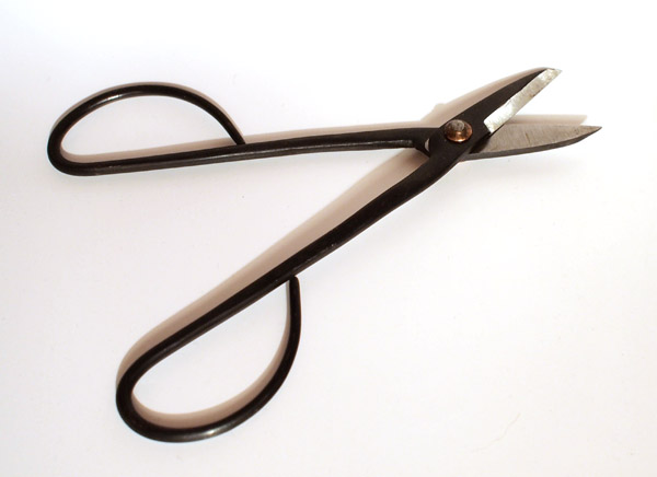 Tijeras de doble filo para bonsáis